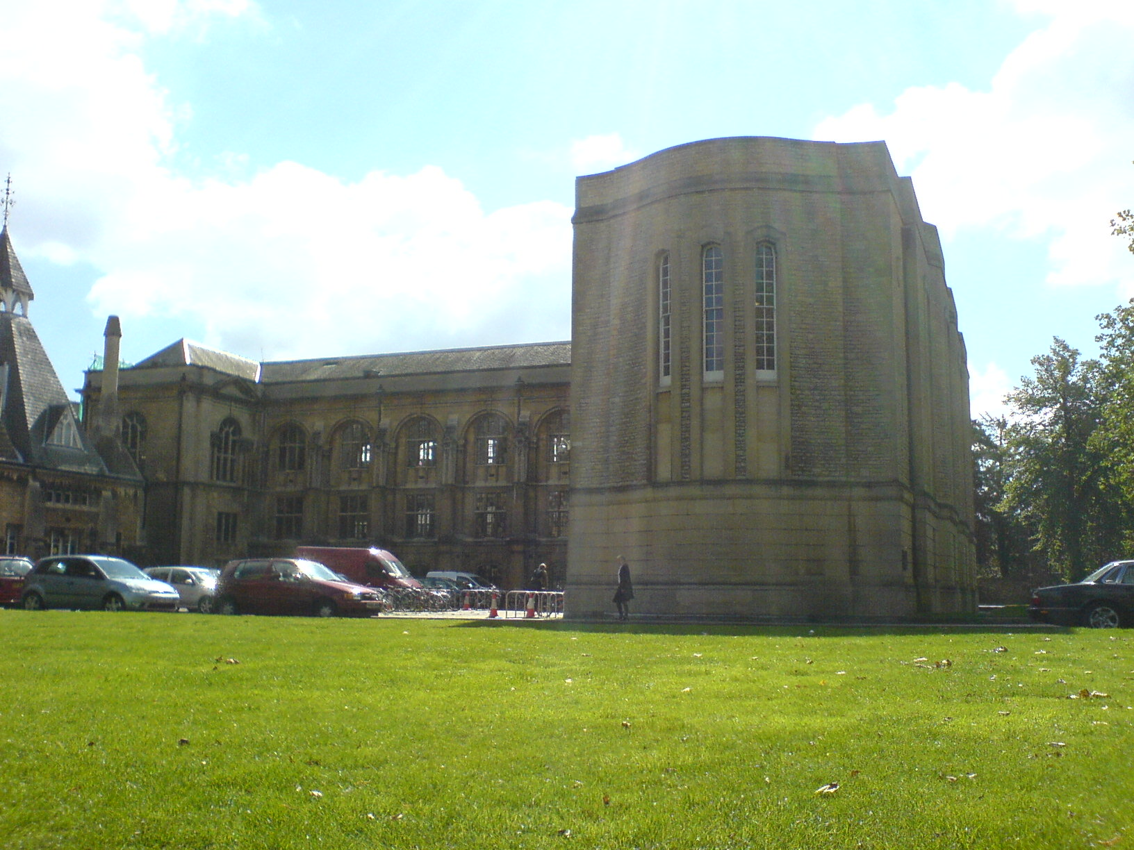 Radcliffe Science Library, University of Oxford, England. The Abbot's Kitchen chemistry laboratory (completed in 1860) is on the far left.